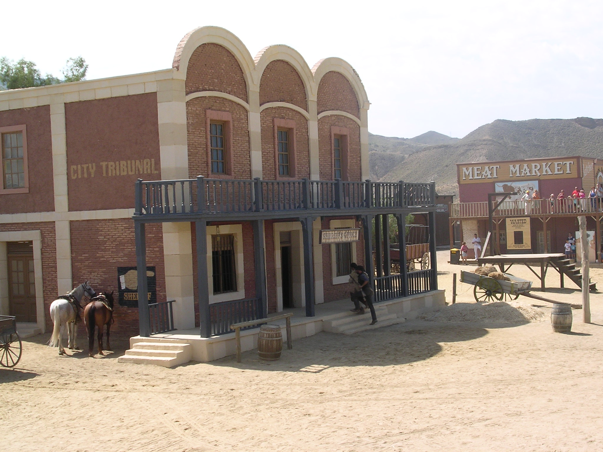 Barcelona, Spain